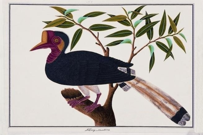 A watercolour drawing of the Helmeted Hornbill (Rhinoplax vigil; known in Malay as burung enggang tebang). The bird's tail has been depicted longer than it is on actual specimens. It is now scarce in Malaysia and extinct in Singapore. The drawing is one of 477 natural history drawings of plants and animals of Malacca and Singapore commissioned by William Farquhar.